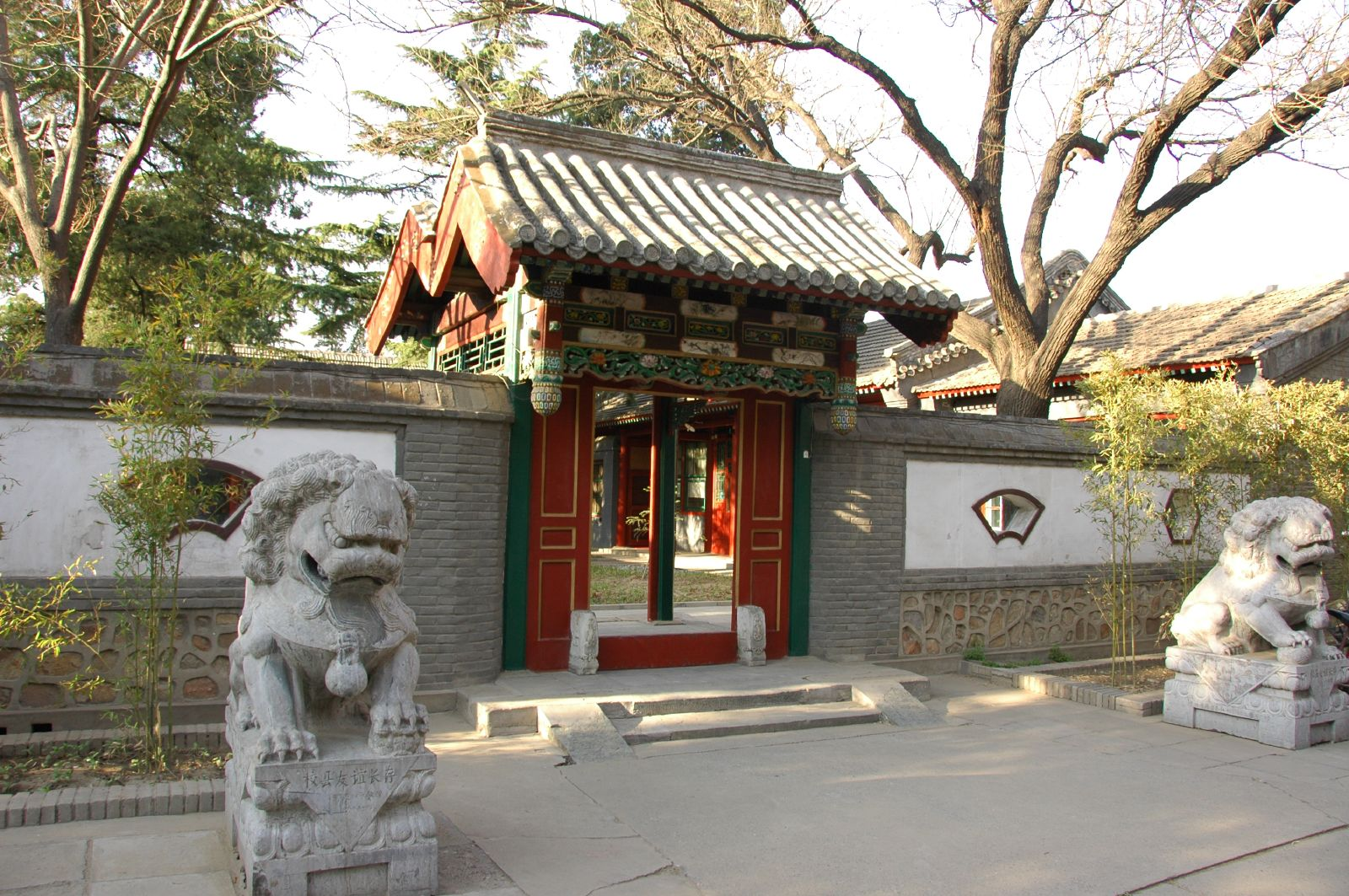 The Tsinghua University campus in Beijing, China